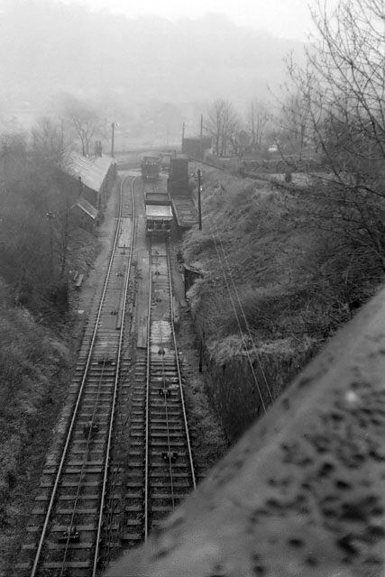 Bottom of Sheep Pasture Incline, 1966